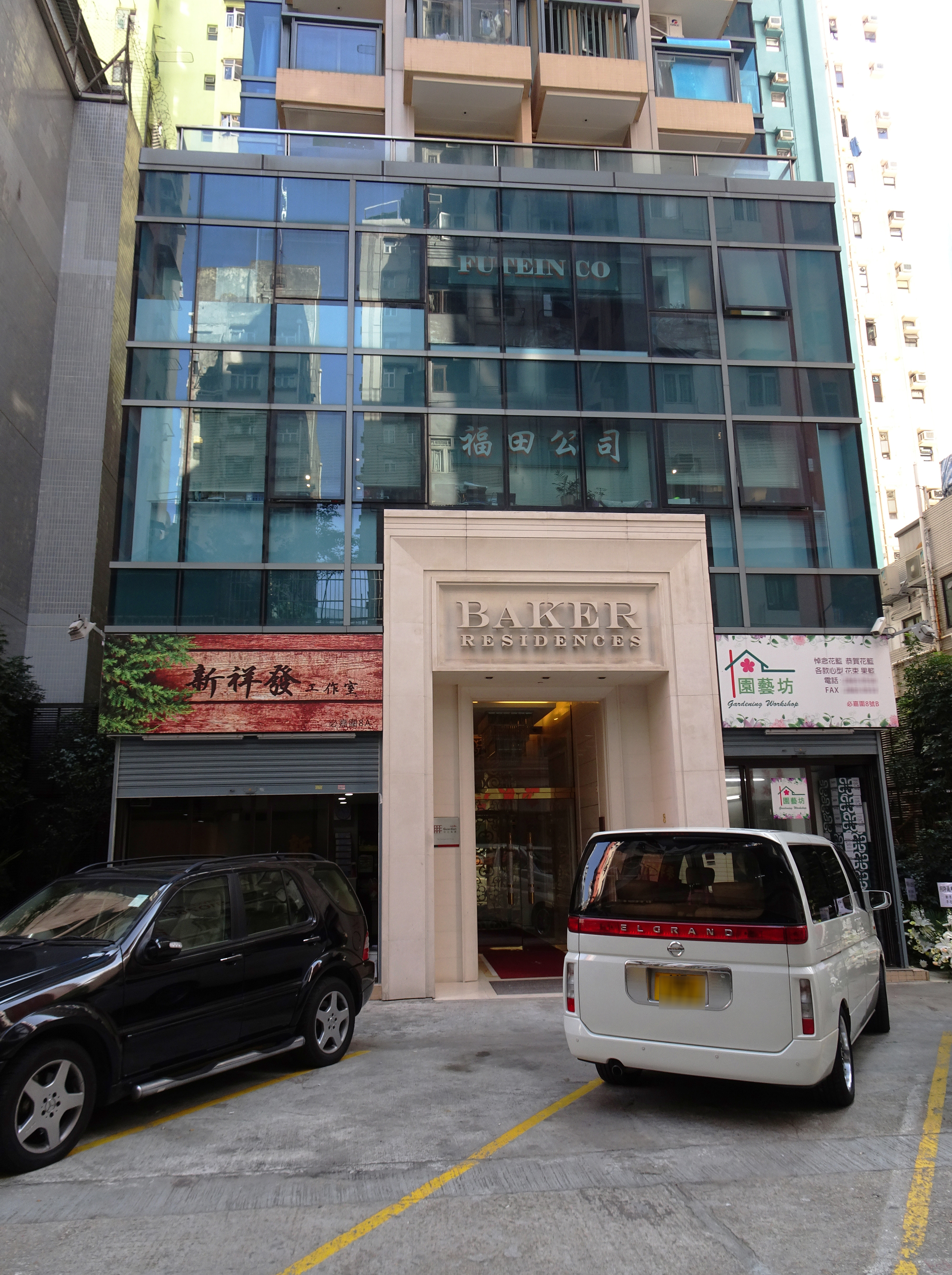 Baker Residences in Hung Hom, Hong Kong.